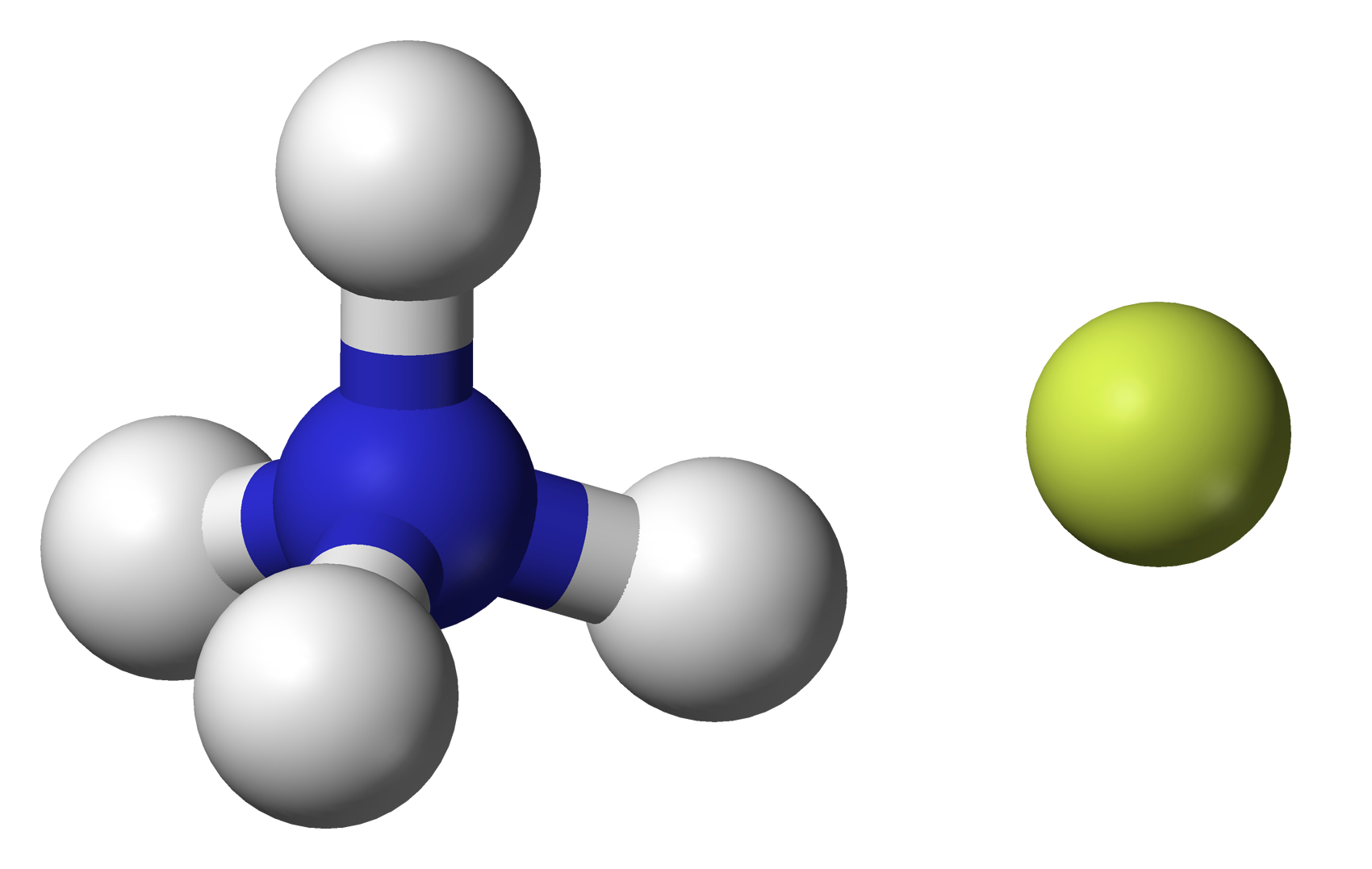 Ball-and-stick model of ammonium fluoride, showing an ammonium cation (left) and a fluoride anion (right).